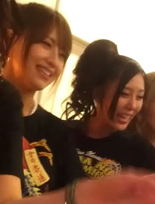 this image is captured from vedio clip